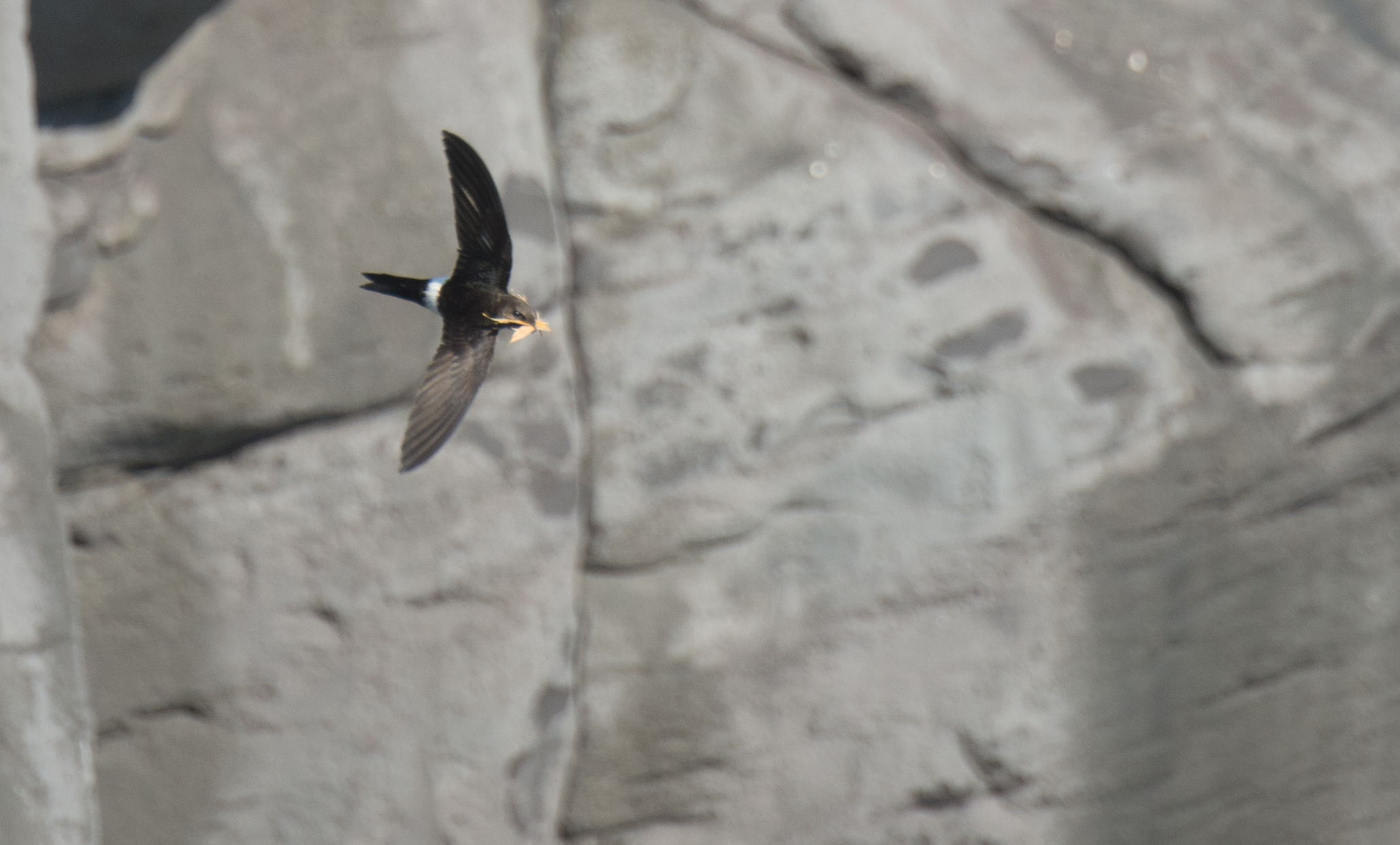 A Pacific Swift flying in Japan. It has got nesting material, probably dry grass, in its beak.